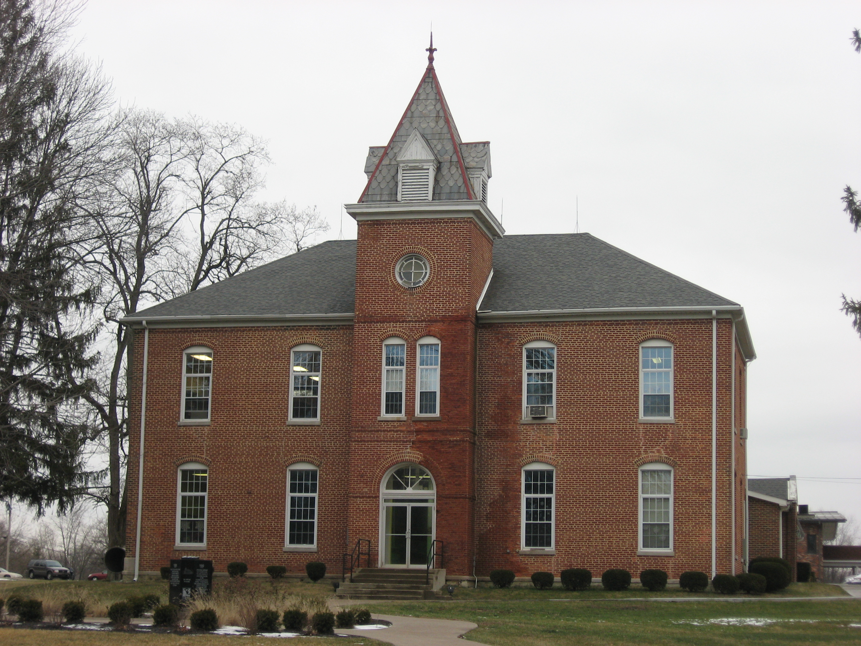 Front of the main building of the former Union High Academy, located at 434 S. Union Street in Westfield, Indiana, United States. Built in 1861, it is part of the Union High Academy Historic District, a historic district that is listed on the National Register of Historic Places.